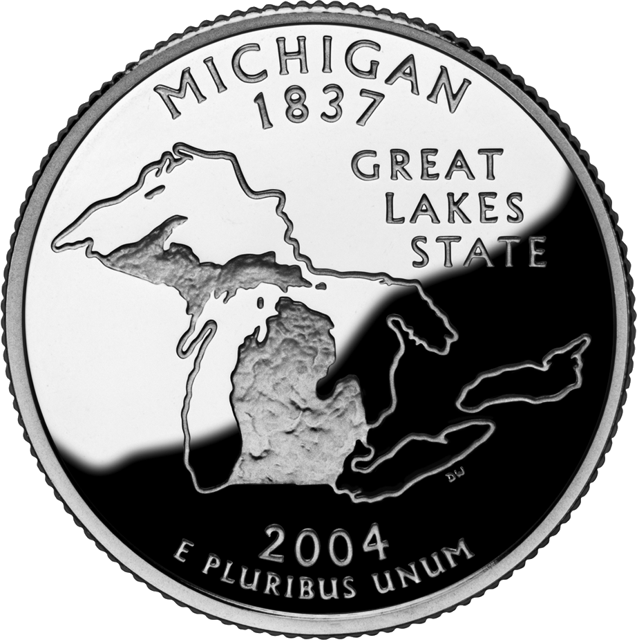 Removed background, cropped, and converted to PNG with Macromedia Fireworks. This image depicts a unit of currency issued by the United States of America. If Fraudulent use of this image is punishable under applicable counterfeiting laws. As listed by the United States Secret Service at money illustrations, the Counterfeit Detection Act of 1992, Public Law 102-550, in Section 411 of Title 31 of the Code of Federal Regulations (31 CFR 411), permits color illustrations of U.S. currency provided:1. The illustration is of a size less than three-fourths or more than one and one-half, in linear dimension, of each part of the item illustrated;2. The illustration is one-sided; and3. All negatives, plates, positives, digitized storage medium, graphic files, magnetic medium, optical storage devices, and any other thing used in the making of the illustration that contain an image of the illustration or any part thereof are destroyed and/or deleted or erased after their final use. Certain coins contain copyrights licensed to the U.S. Mint and owned by third parties or assigned to and owned by the U.S. Mint [1]. For the United States Mint circulating coin design use policy, see [2]; for the policy on the 50 State Quarters, see [3]. Also: COM:ART #Photograph of an old coin found on the Internet